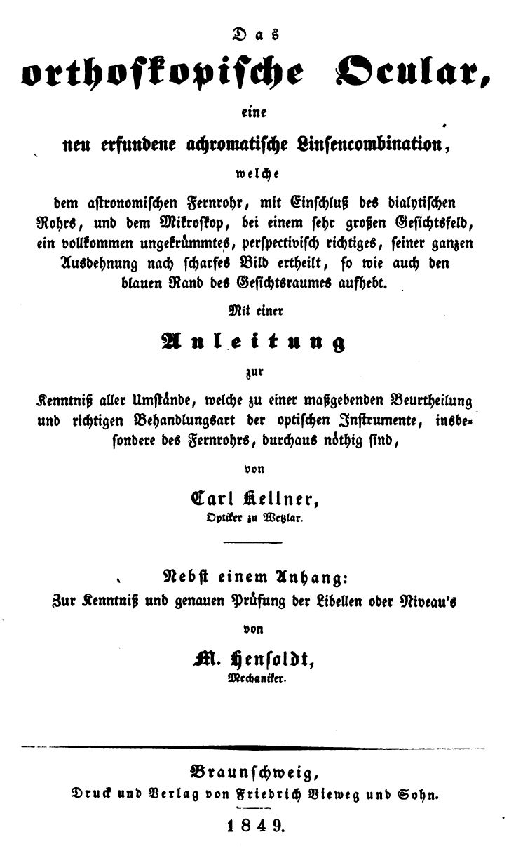 Title page of the book by Carl Kellner: "Das orthoskopische Ocular"